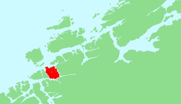 Locator map of Ertvågsøya, Norway